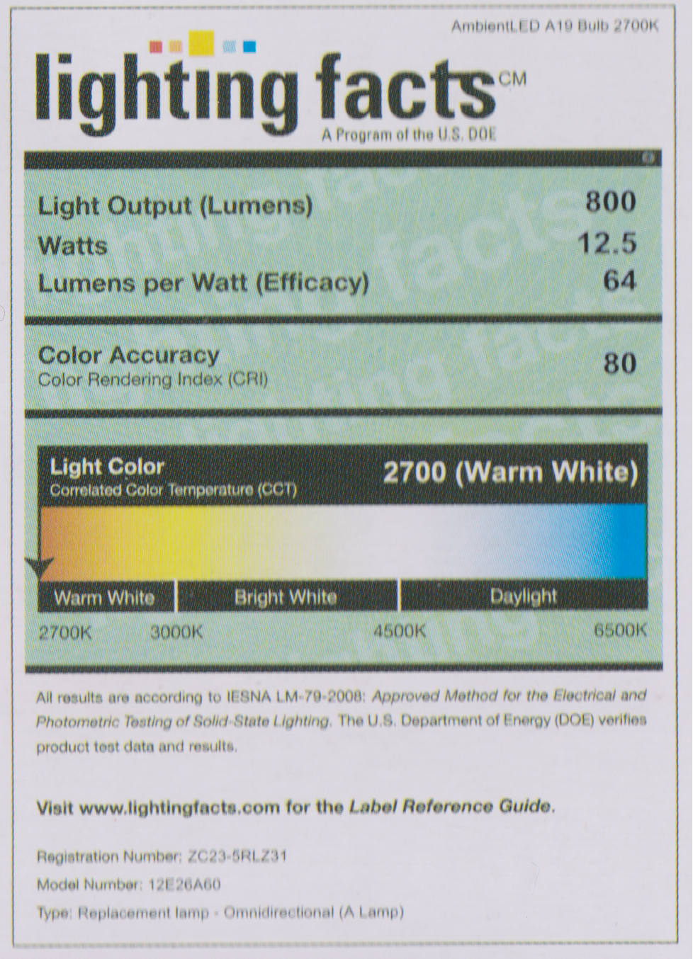 Example of a lighting facts table.